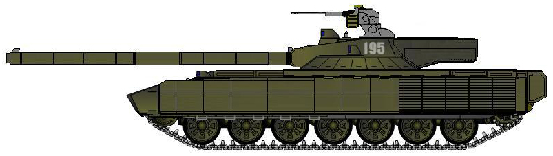 Ob'yekt 195.